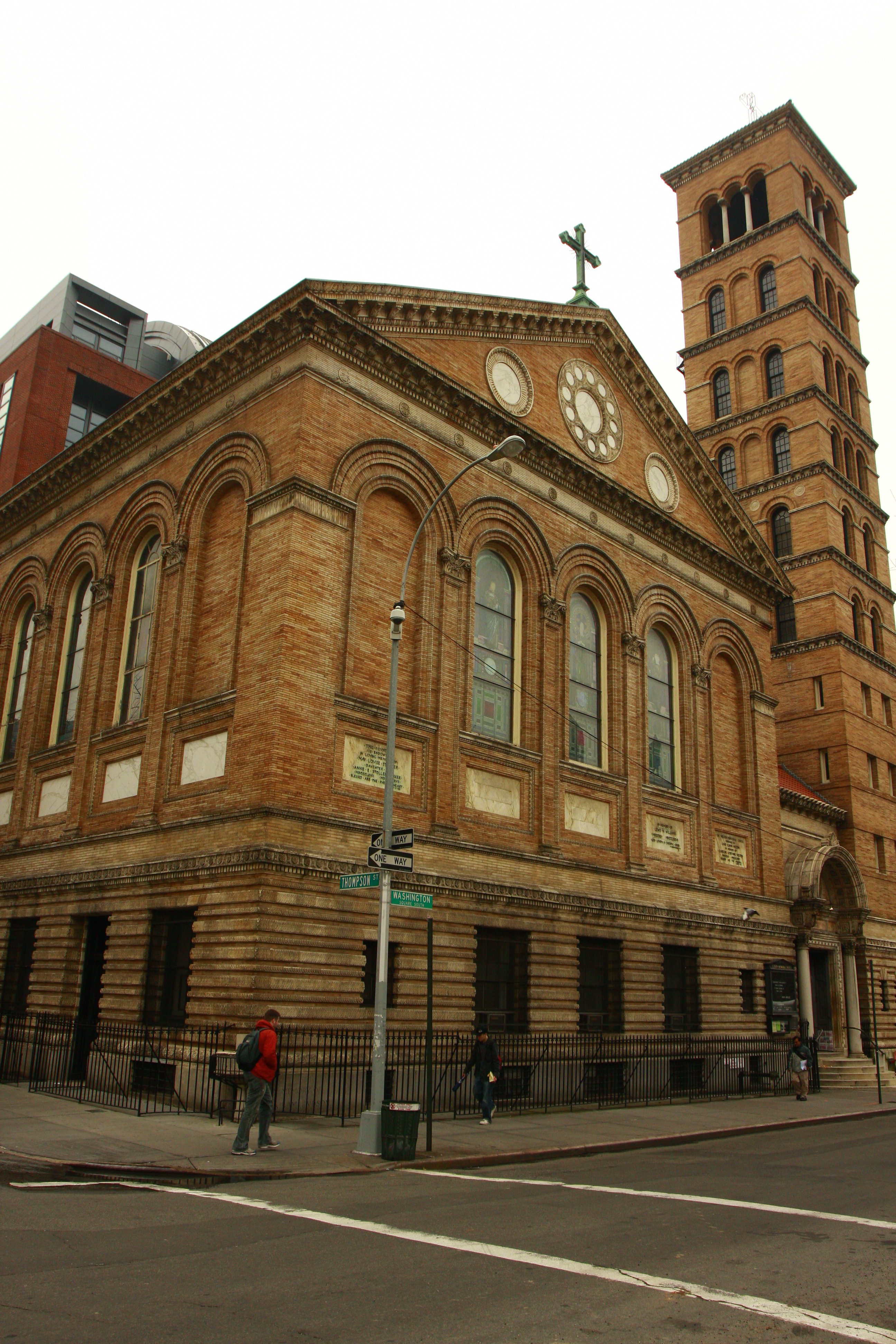 This photo is of Wikipedia Takes Manhattan location code 146, Judson Memorial Church.